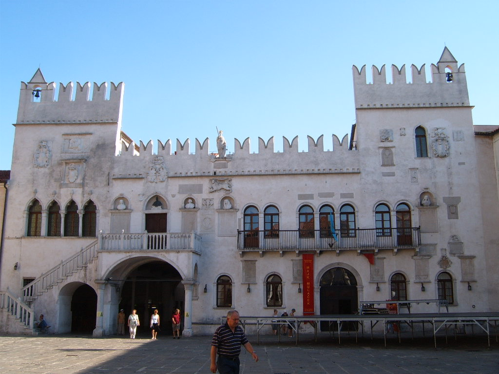 Praetorian Palace, Koper (Slovenia) Photographer: Markus Bernet Date: 07/19/2005